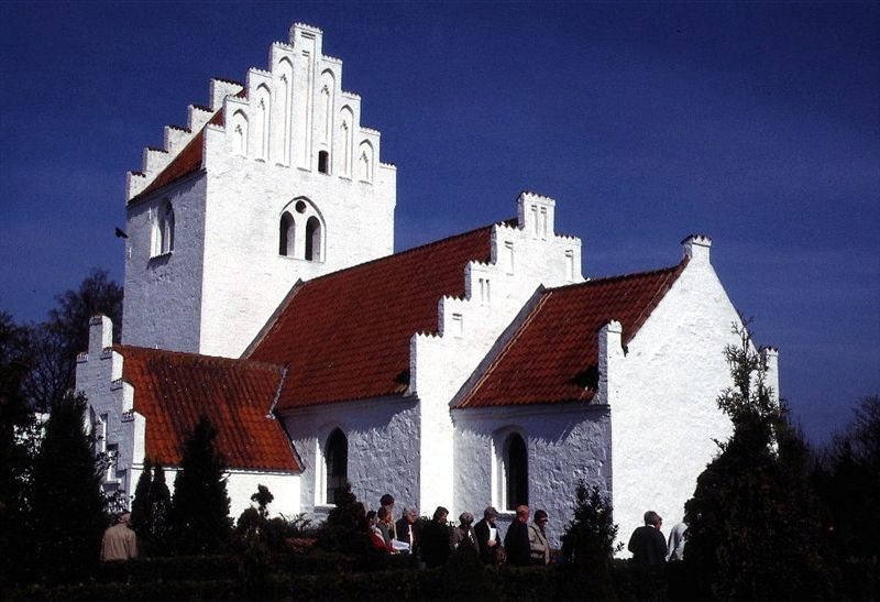 Tuse Kirke (church)